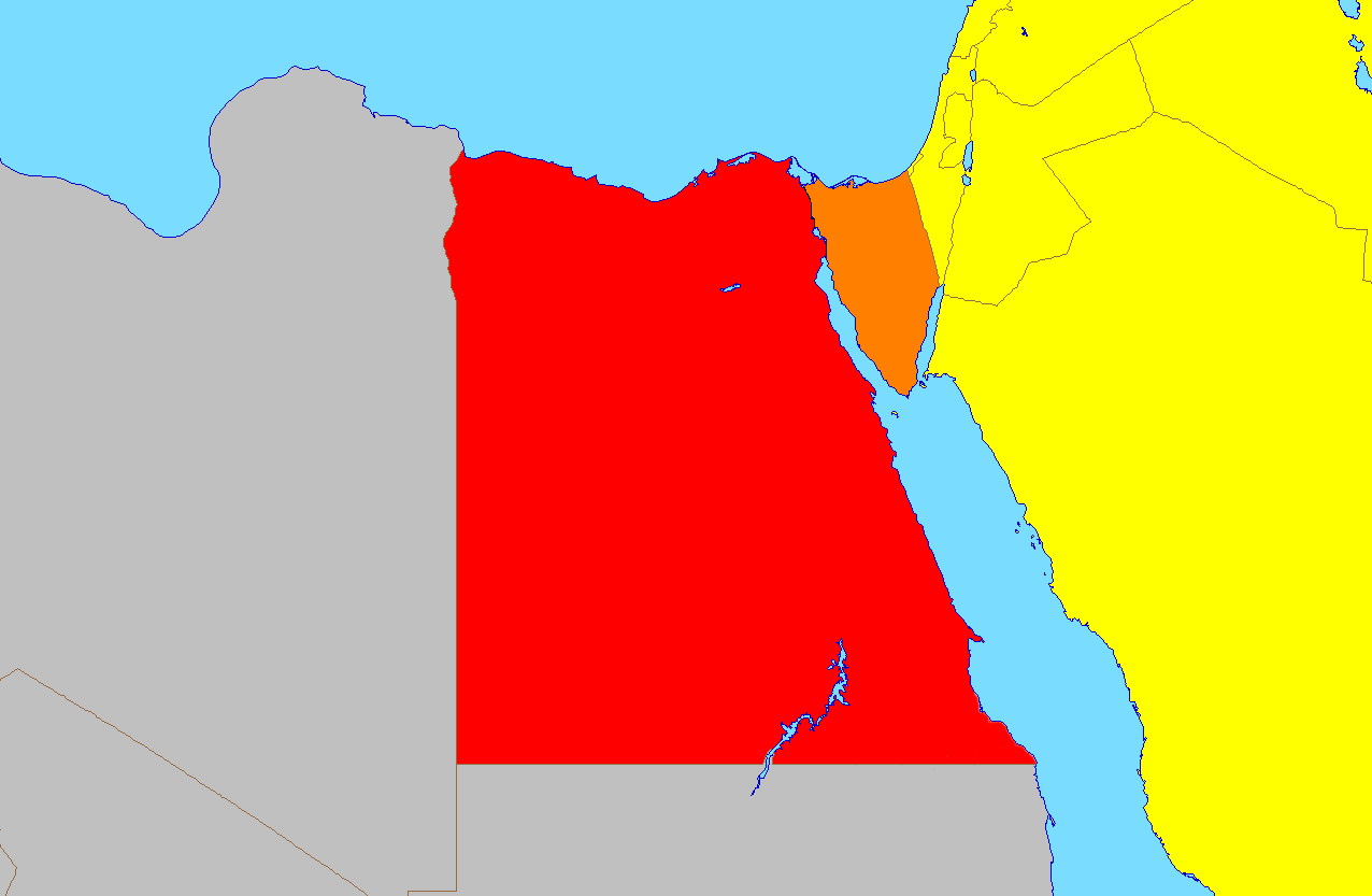 Egypt, Asian and African part